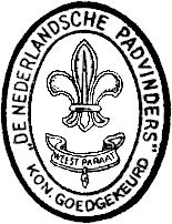 Logo of "De Nederlandsche Padvinders". The NPV existed from 1915 to 1973. The logo has no present trademark value. This is the complete logo as used in books and letterheads. After WW II the name of the organisation and the logo was changed to "De Nederlandse Padvinders".